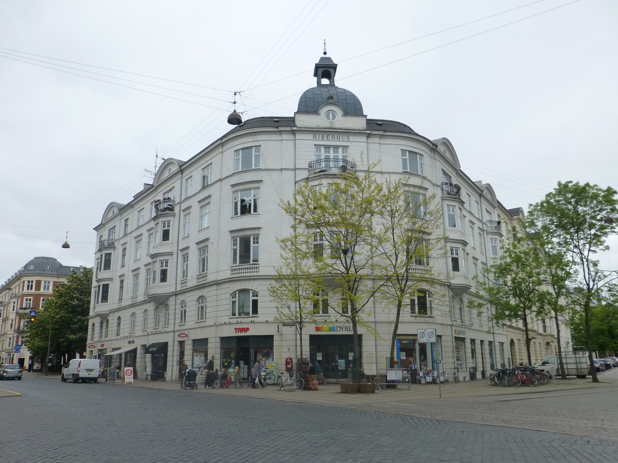 The building Riberhus on the corner of Nordre Frihavnsgade and Sankt Jakobs Gade in Østerbro in Copenhagen.